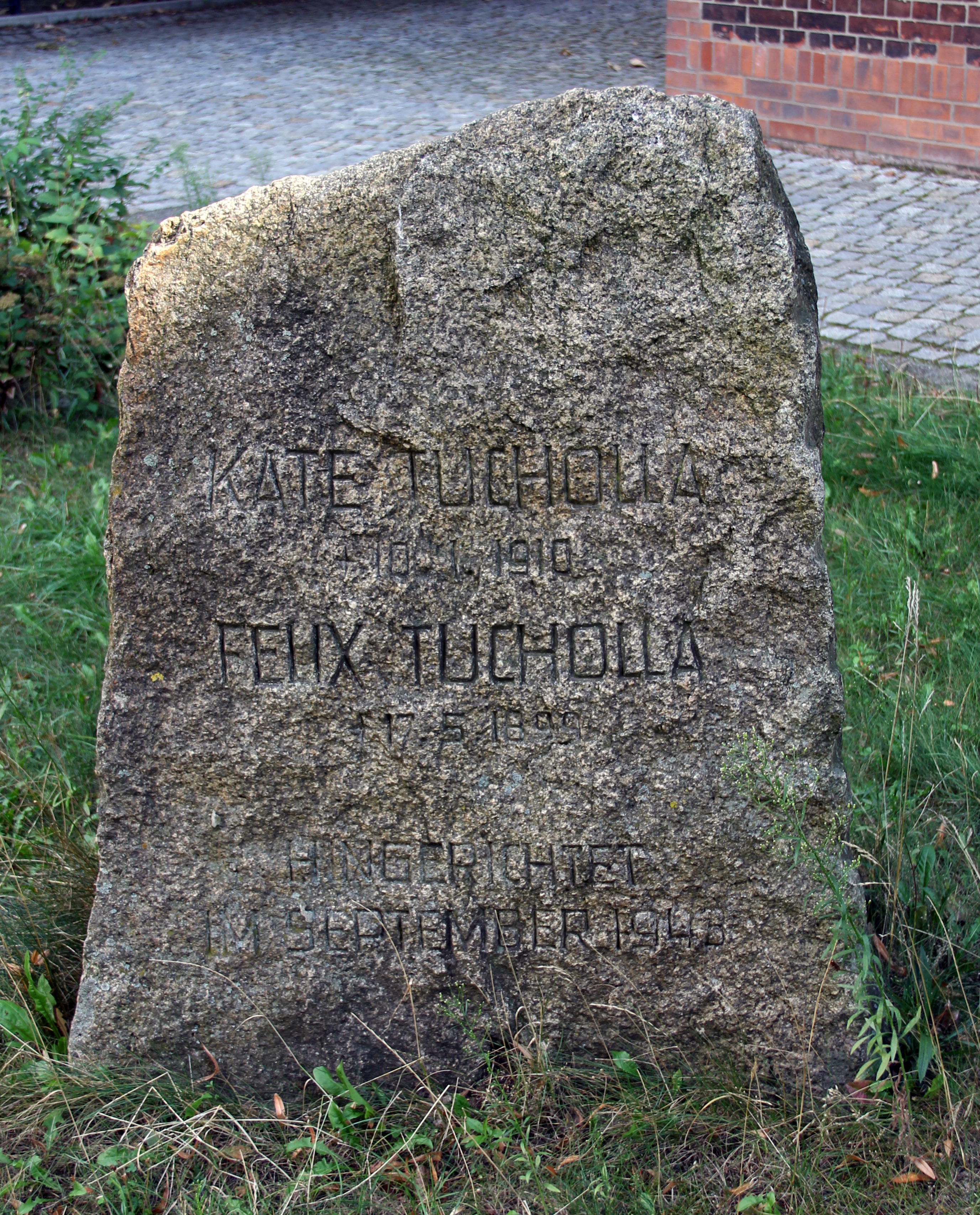 Memorial stone, Felix Tucholla and Käthe Tucholla, Nöldnerstraße 44, Berlin-Rummelsburg, Germany